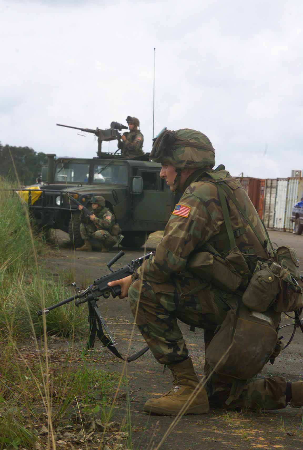 U.S. Marines from 26th Marine Expeditionary Unit (Special Operations Capable) secure Roberts International Airport in Liberia during the Second Liberian Civil War. 26th MEU(SOC) participated in Joint Task Force Liberia. Photograph taken August 18, 2003.